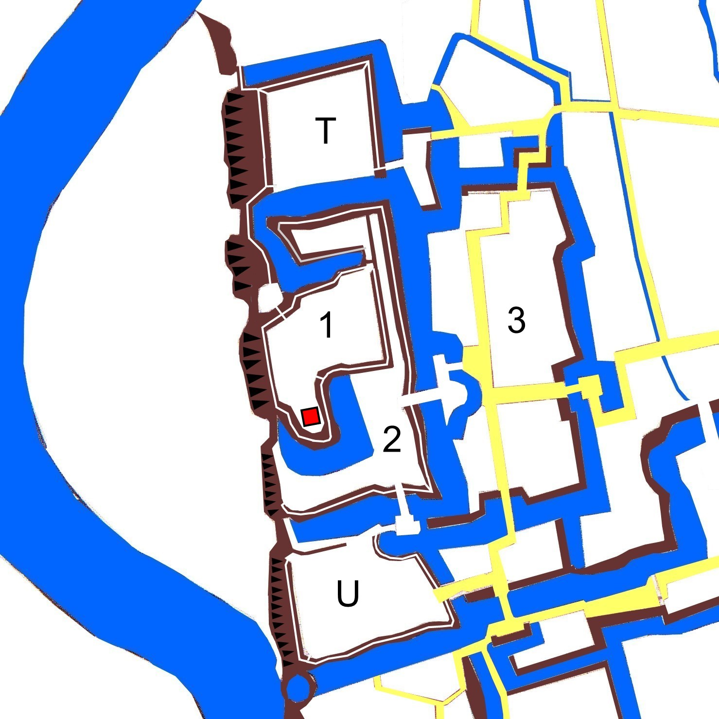 Former layout of Maebashi castle